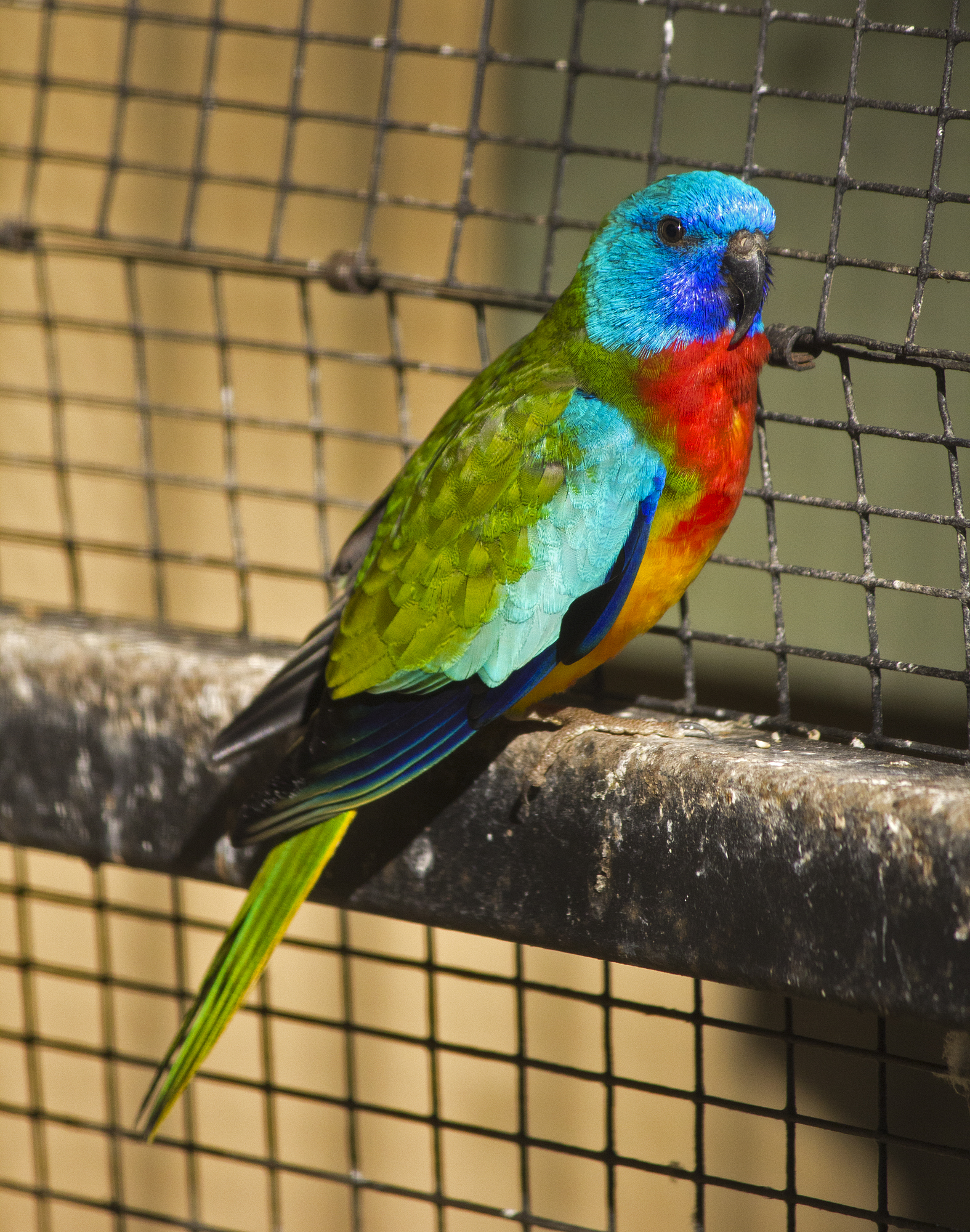 Scarlet-chested Parrot (Neophema splendida) at the Wagga Zoo.